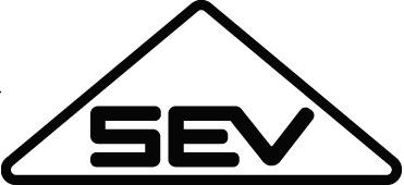 Swiss conformity mark SEV.